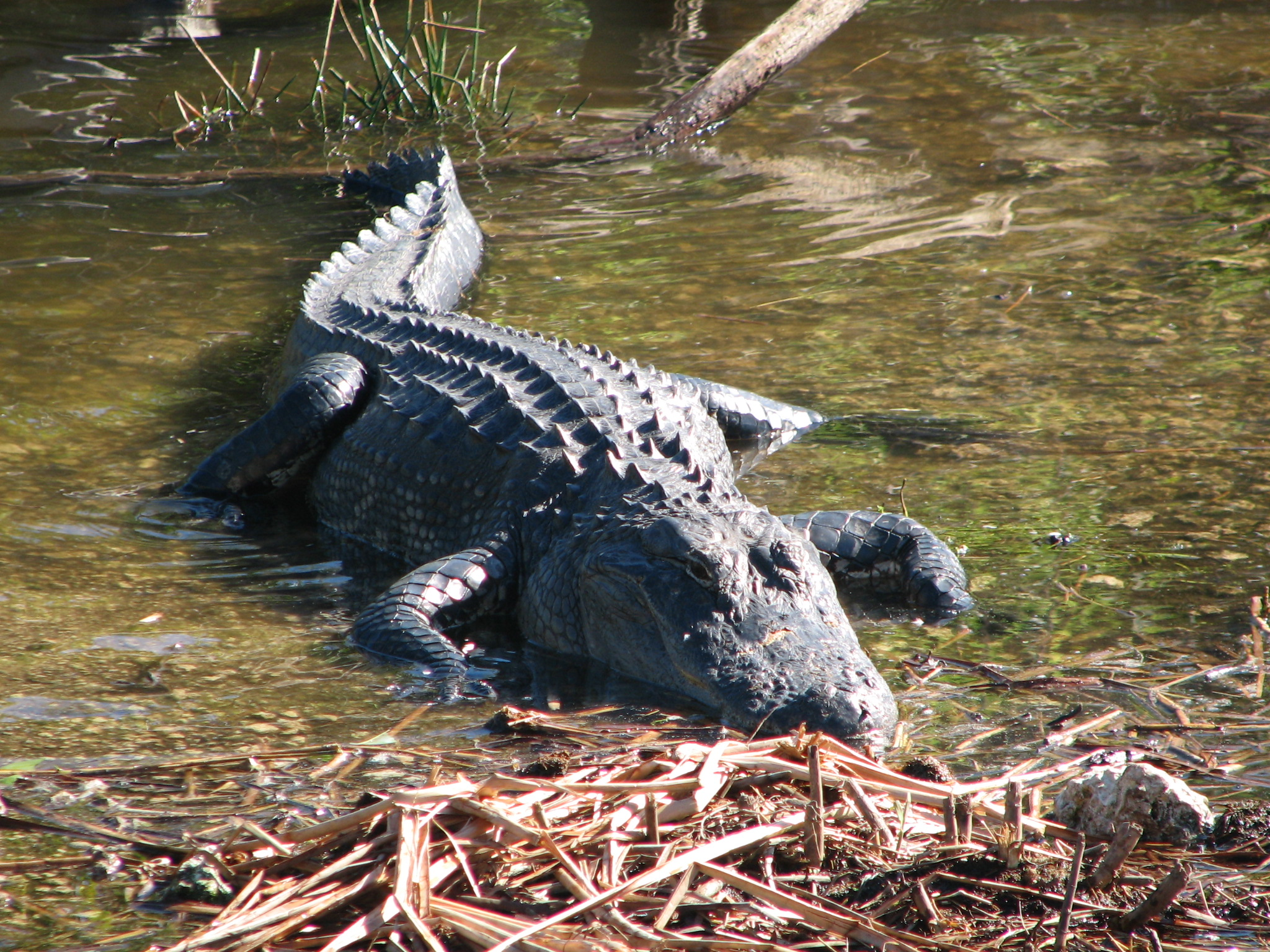 American alligator in Flordia